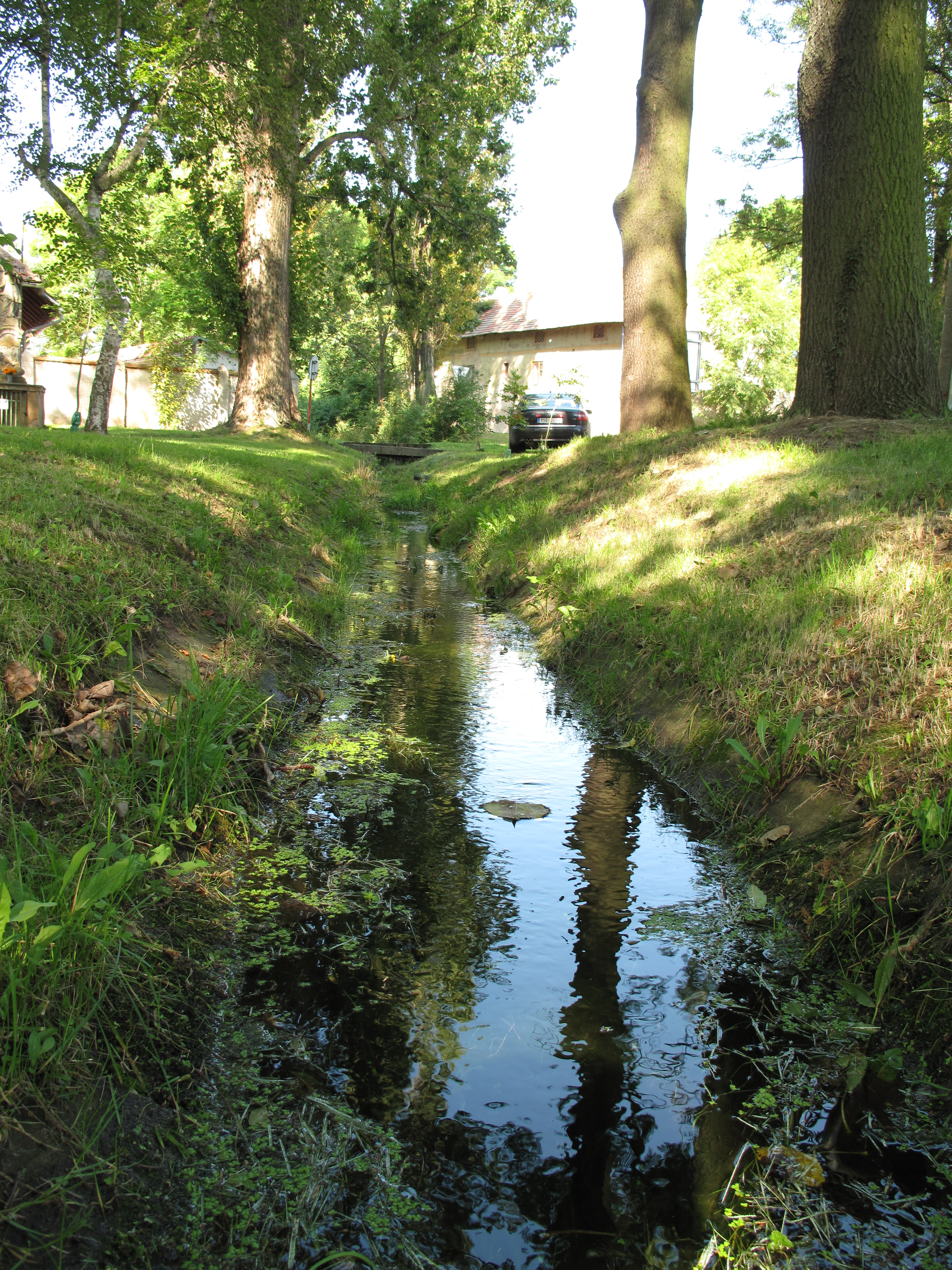 Milčický potok (Milčice Stream) in Chotouň village square (Chrášťany municipality), Kolín District, Czech Republic.